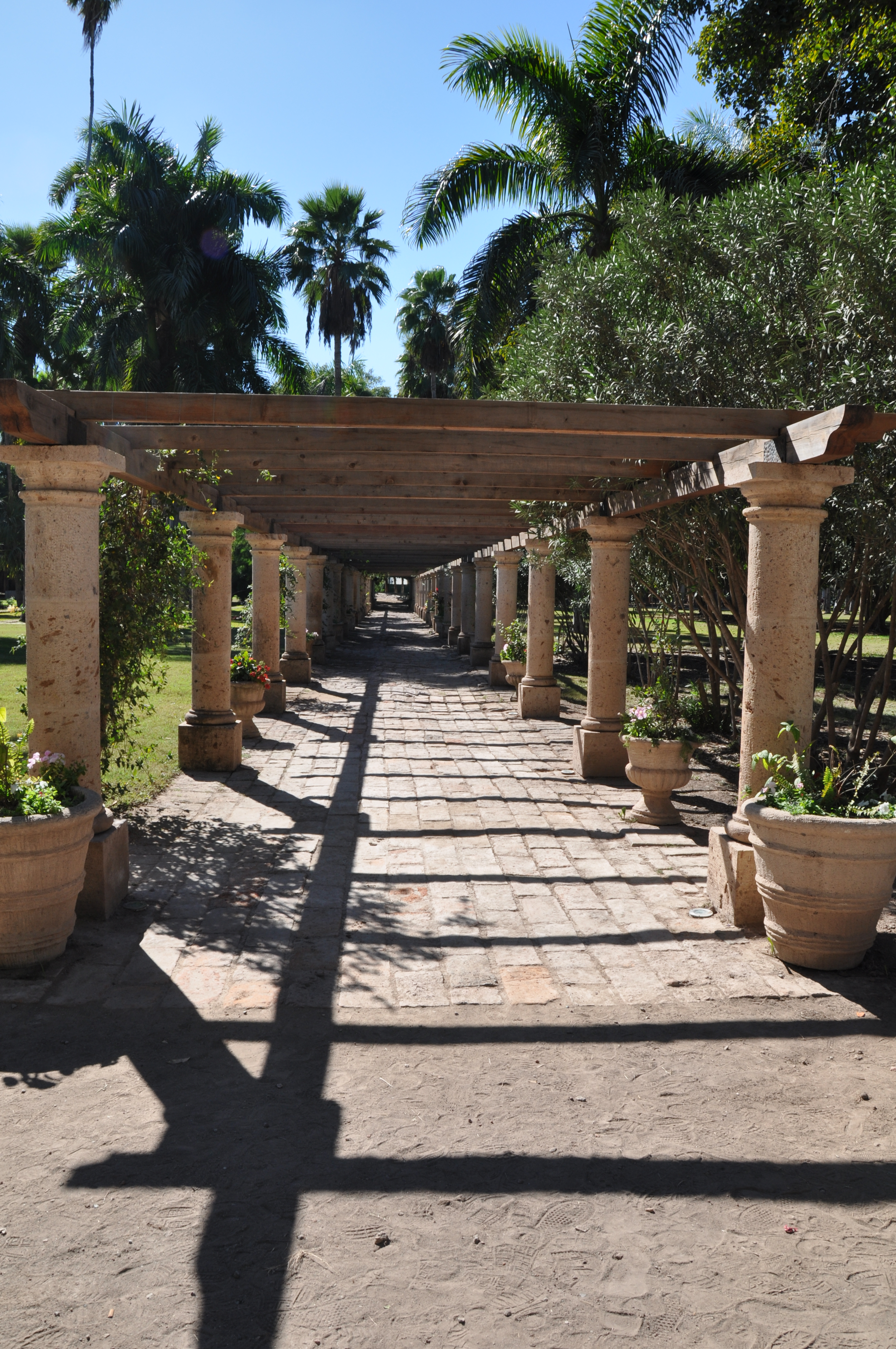 Rests of "Casa Grande"